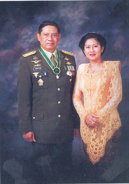 Then-president Susilio Bambang Yudhoyono and his wife, Kristiani Herrawati, in an official military potrait.